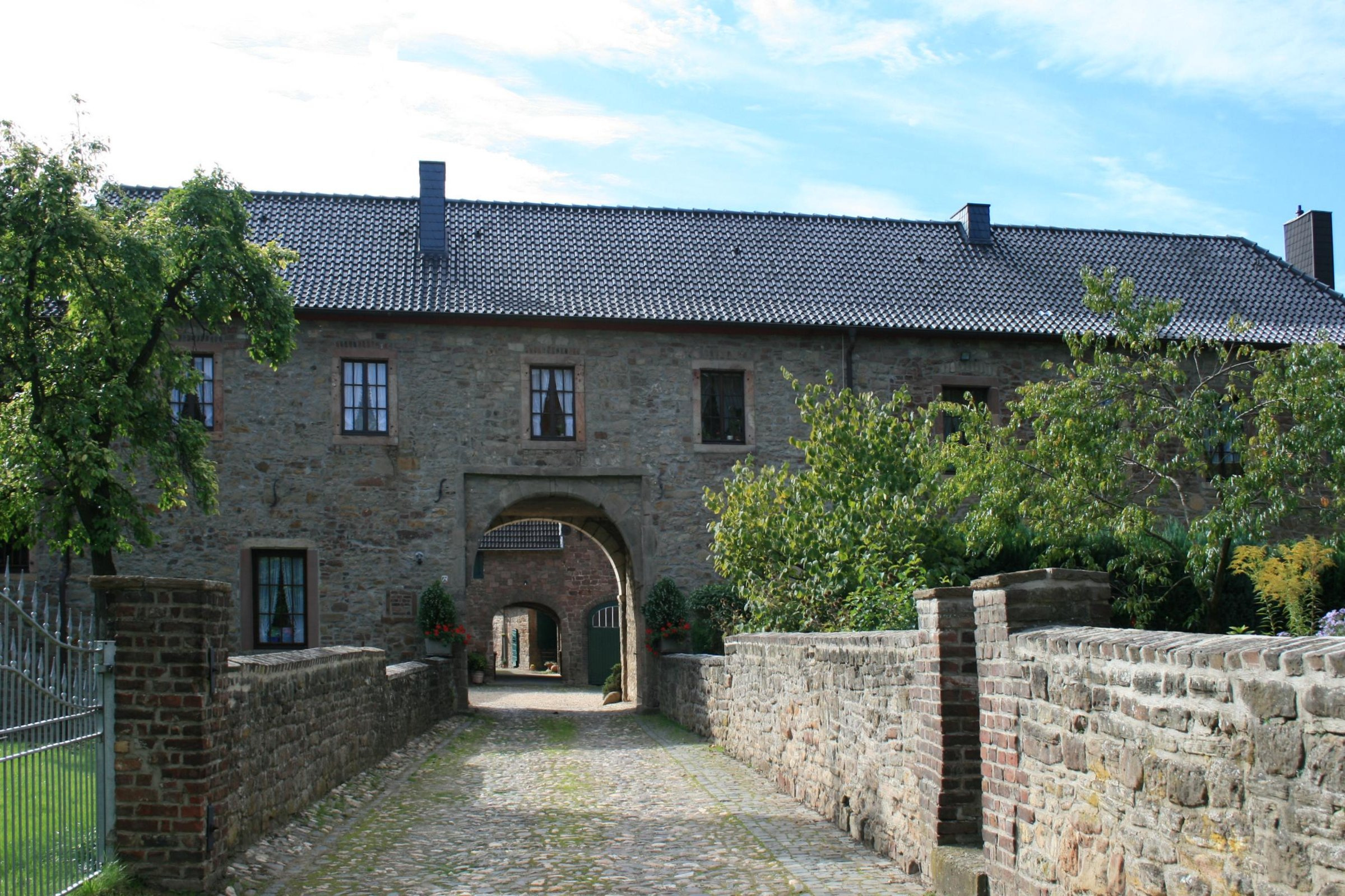 Cultural heritage monument No. 22 in Kreuzau